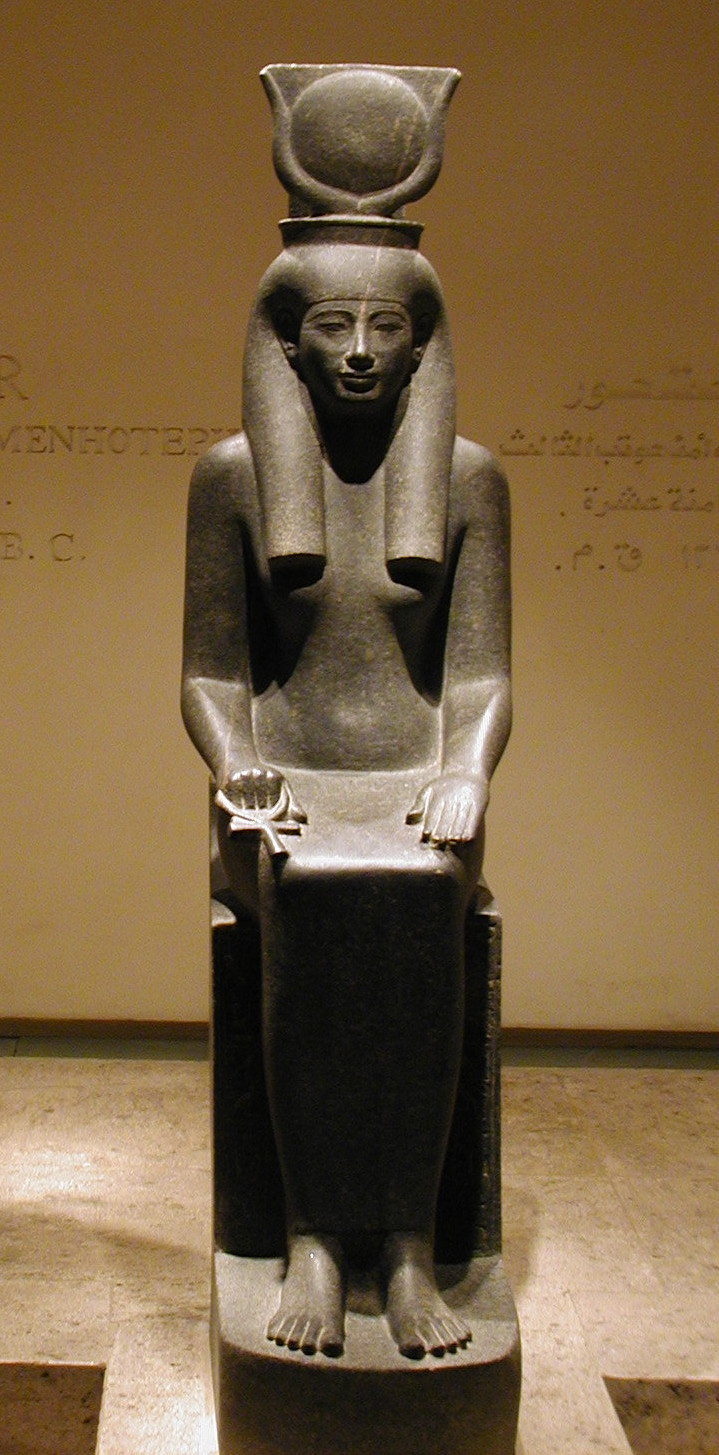 Statues of Hathor. Luxor Museum.